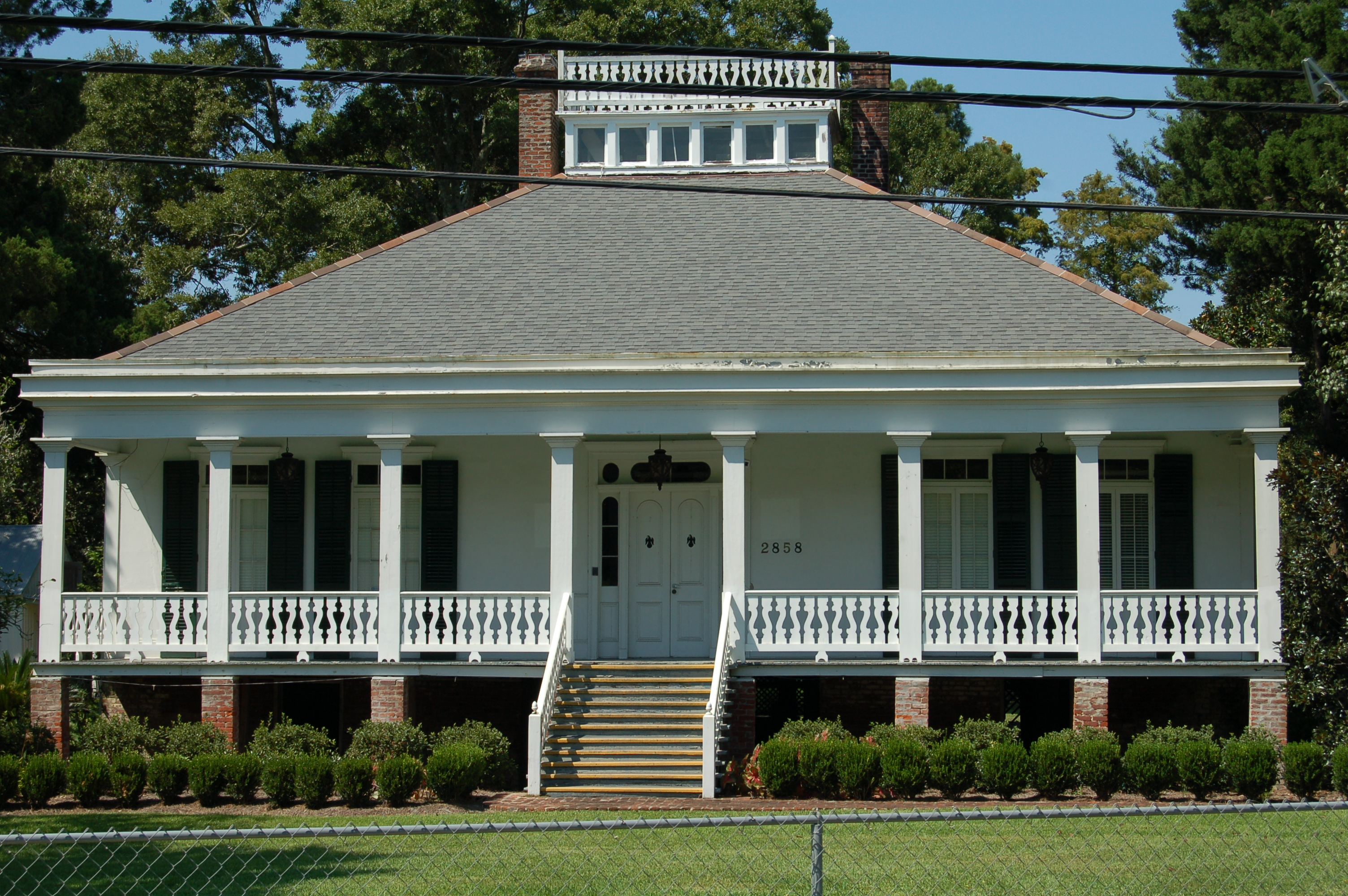 Emilie Plantation House, Louisiana Highway 44 Garyville